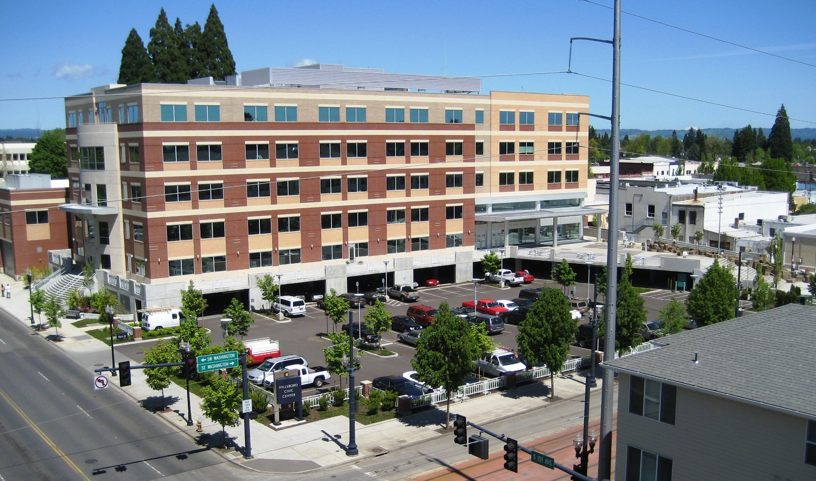 Hillsboro Civic Center in Oregon